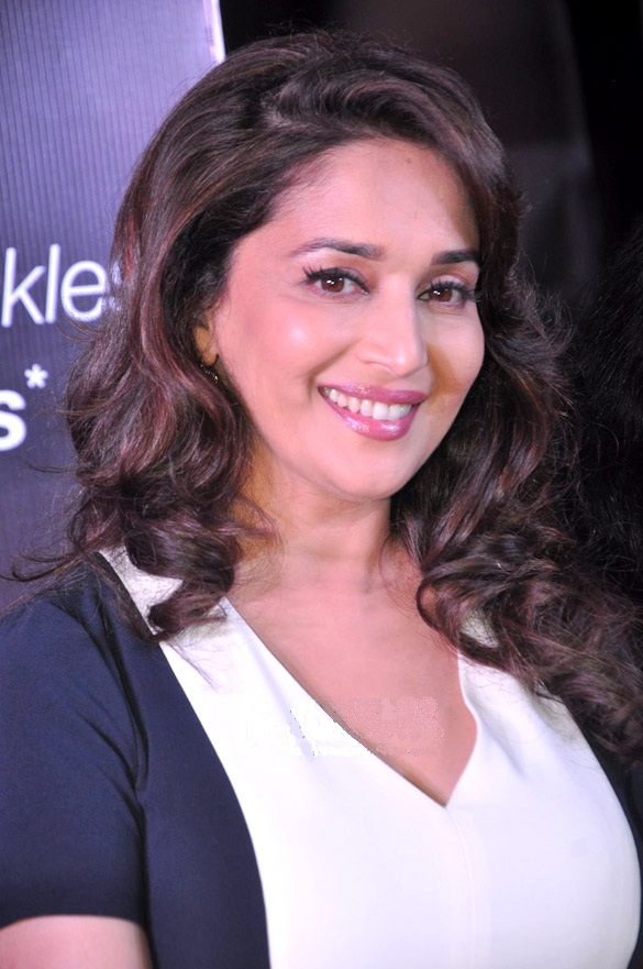 Madhuri Dixit at R City Mall, Mumbai promoting for the cosmetic product brand Olay